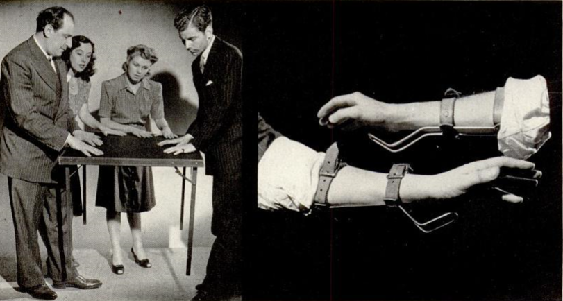 The magician Joseph Dunninger revealing a fraudulent method of 'levitating' a table with a hidden hook attached to the arm.